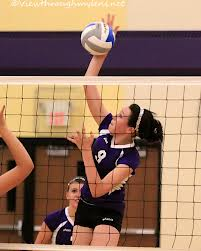 volleyball shoot